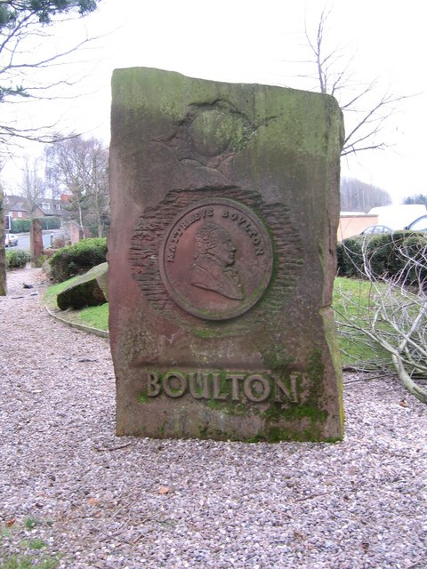 Stone Memorial, Matthew Boulton, Asda Queslett. Memorial at the Asda Store to Matthew Boulton, a founding member of the Lunar Society who used to meet at the nearby Great Barr Hall. 381511 556518 One of a number of "Moonstones" at this site.